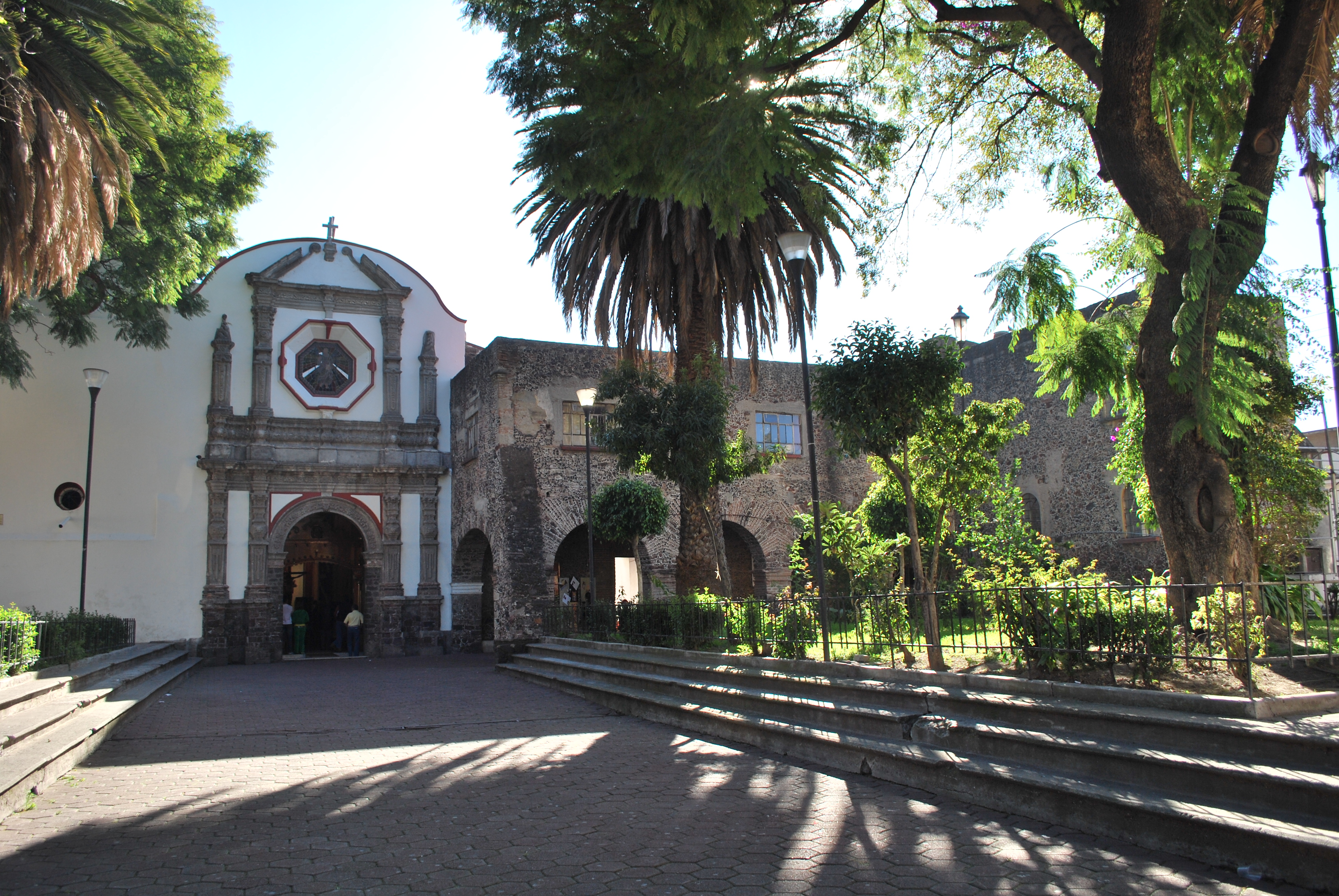 View of the San Matias Church in Iztacalaco, Mexico City